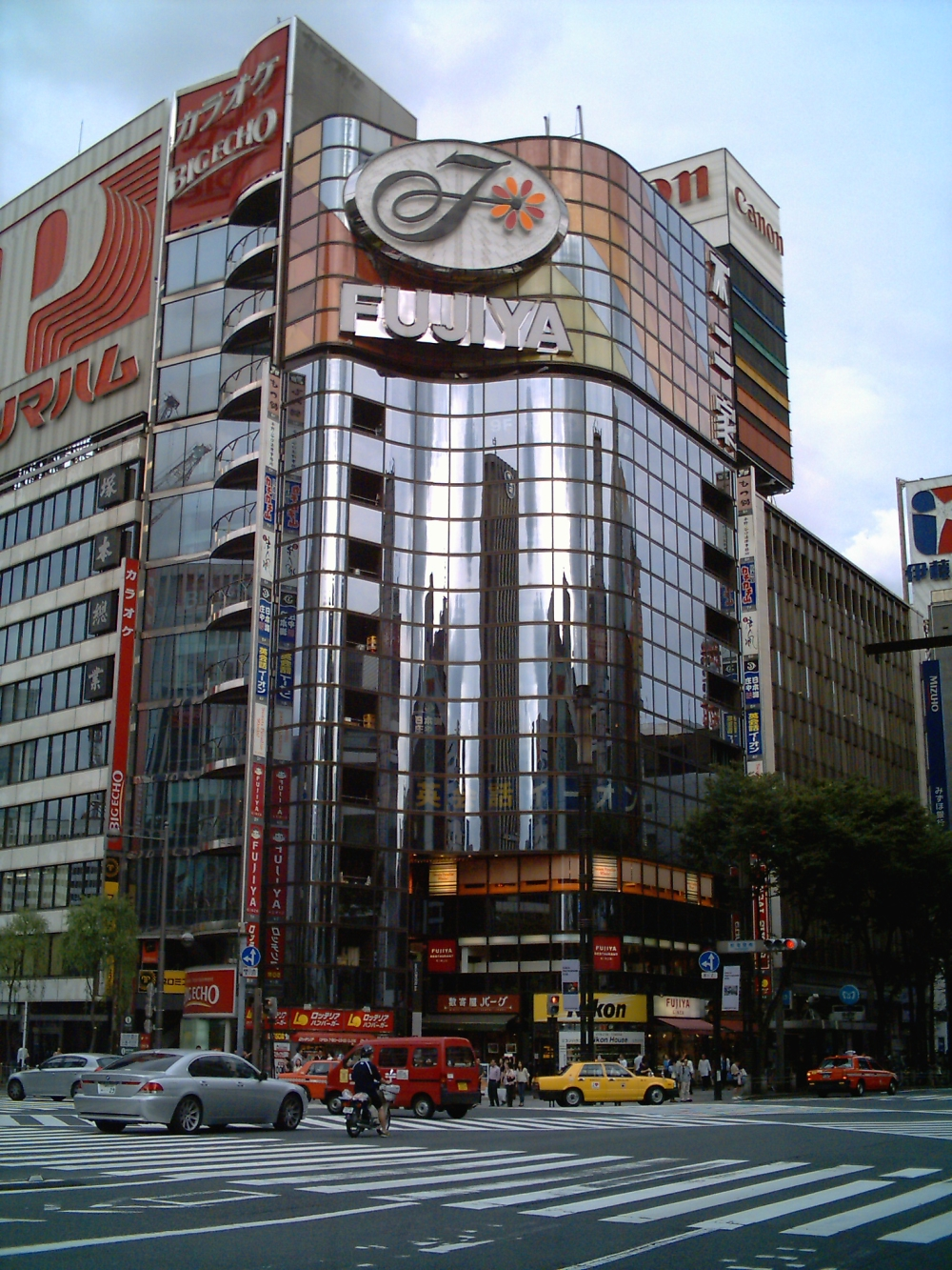 Ginza_FUJIYA_2006_japan photography day, 2006.9.16. photography person kici